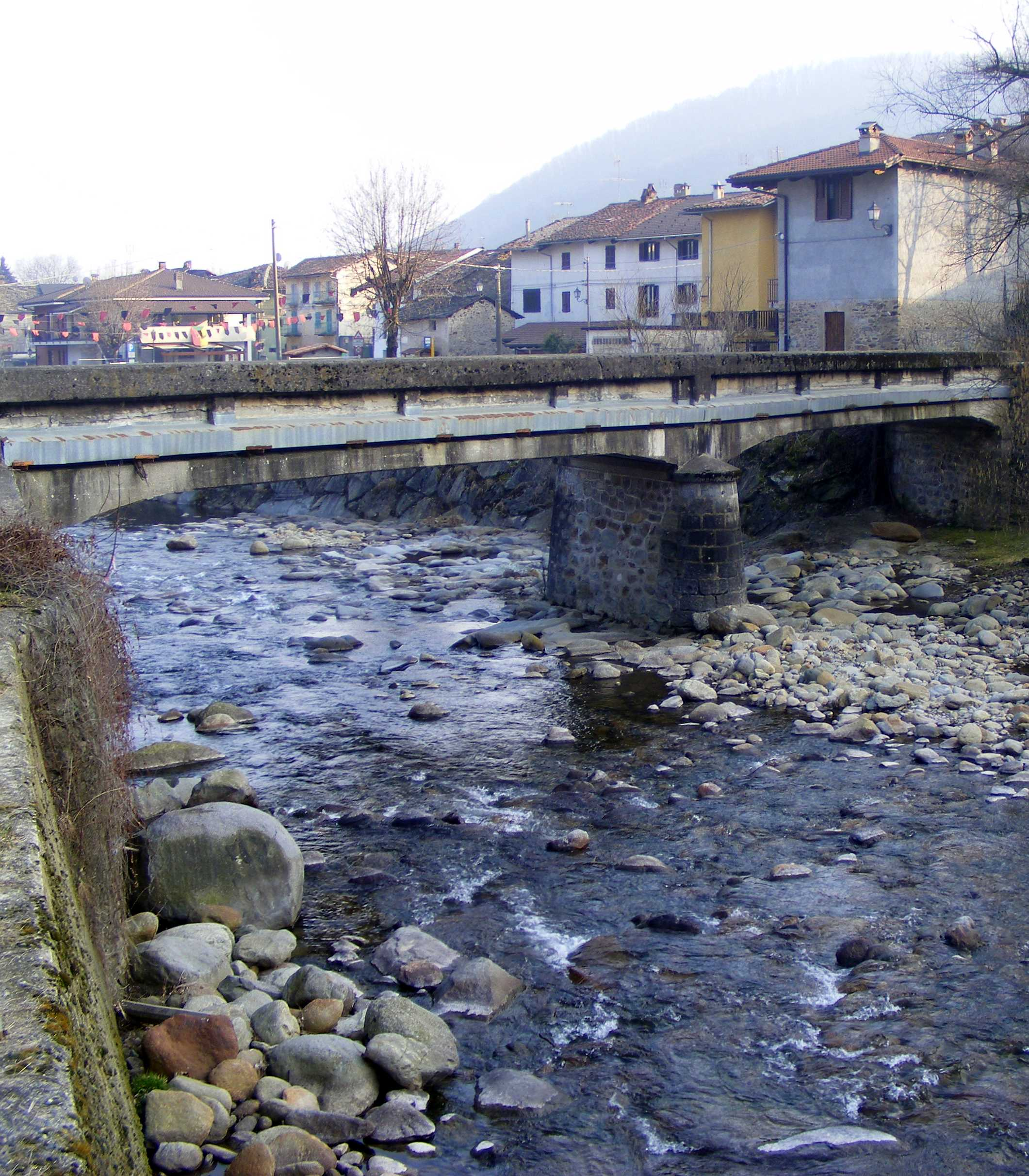 Savenca creek: bridge of Issiglio (TO, Italy)